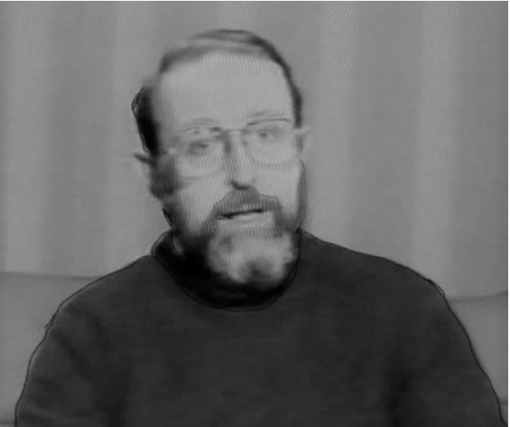 Don Nicola Palmisano, SDB (Taurisano, 9 November 1940 - Rome, 20 January 1993), was an Italian educator, activist and philosopher, the "Don Milani del Sud", was engaged in activities for the redemption of young people in social distress and exponent of the philosophical movement dynamic realism.